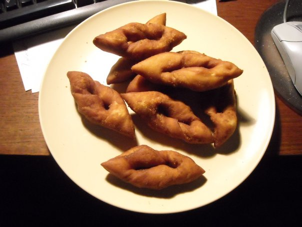 Icelandic doughnuts are mady by twisting dough and frying it.